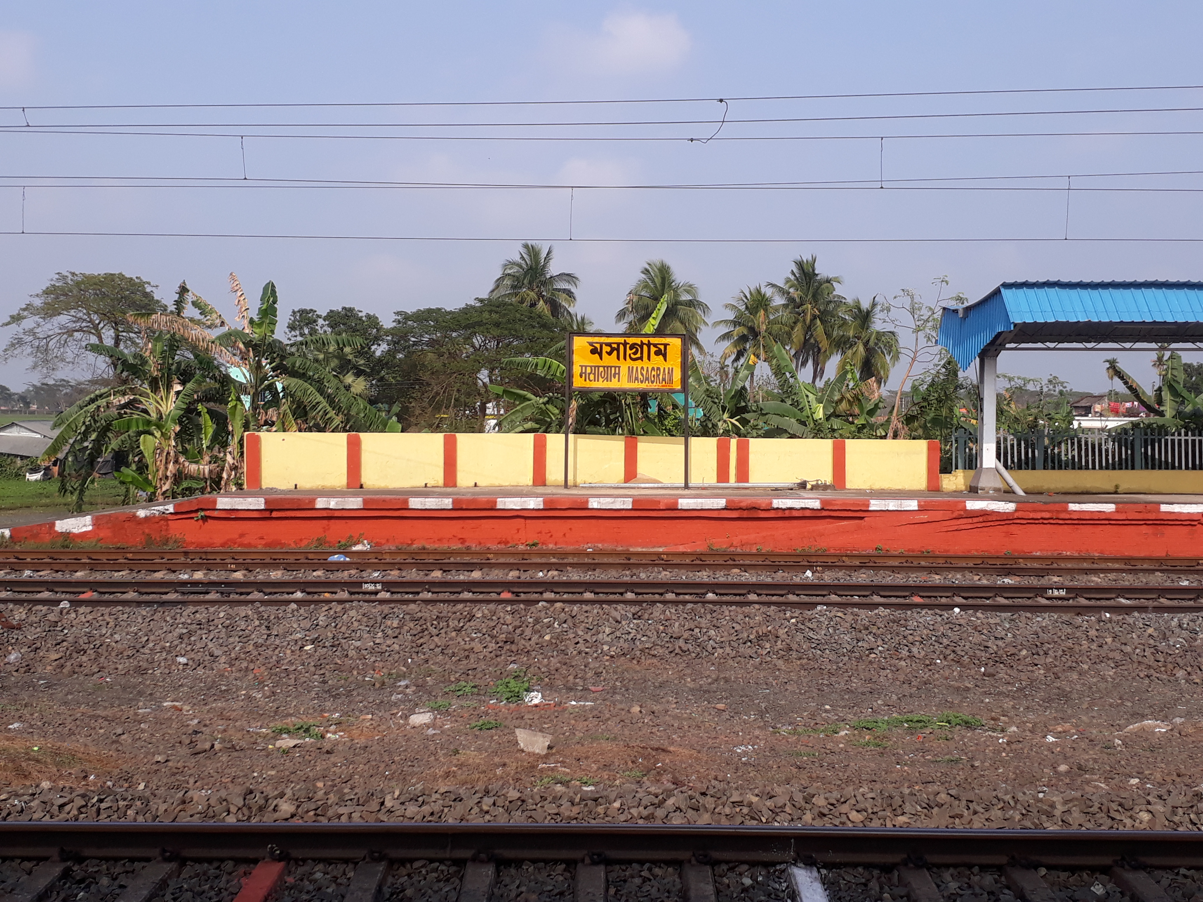 Masagram Junction railway station on Howrah Bardhaman cord line in Purba Bardhaman distrct